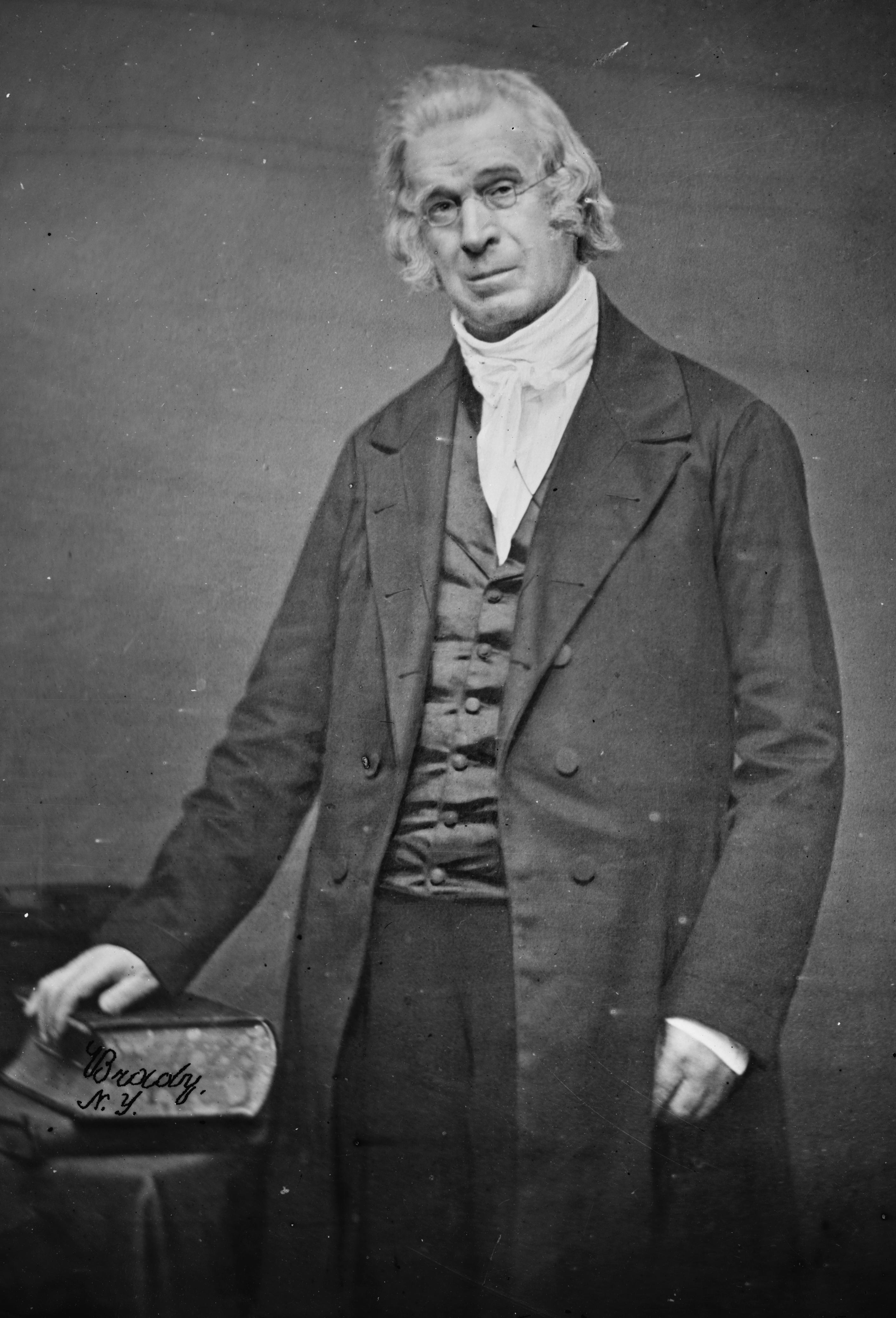 Nathan Bangs. Library of Congress description: "Rev. Nathan Bangs".